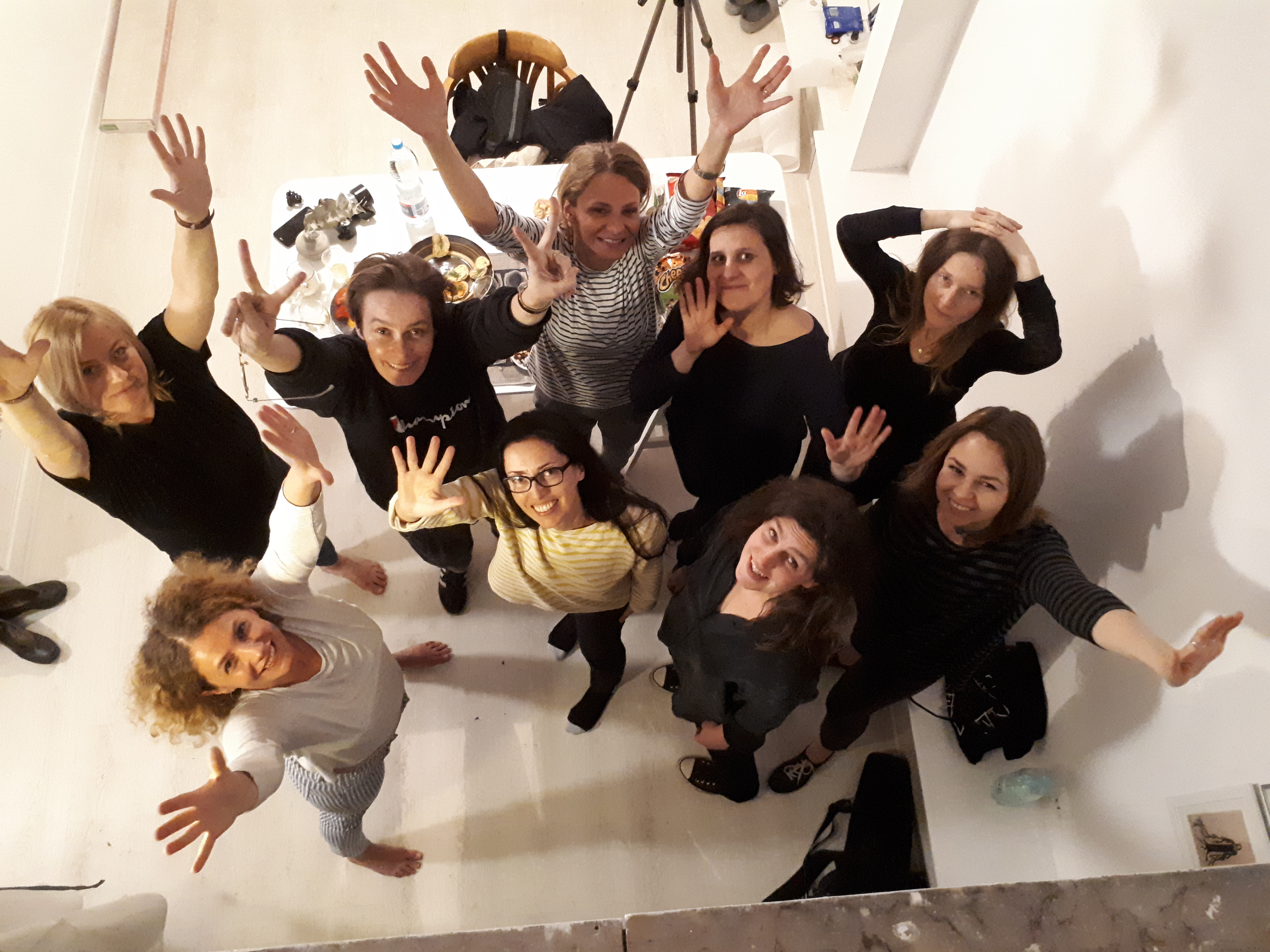 Cześć Grupa 13, zdjęcie wykonane w 2018 roku